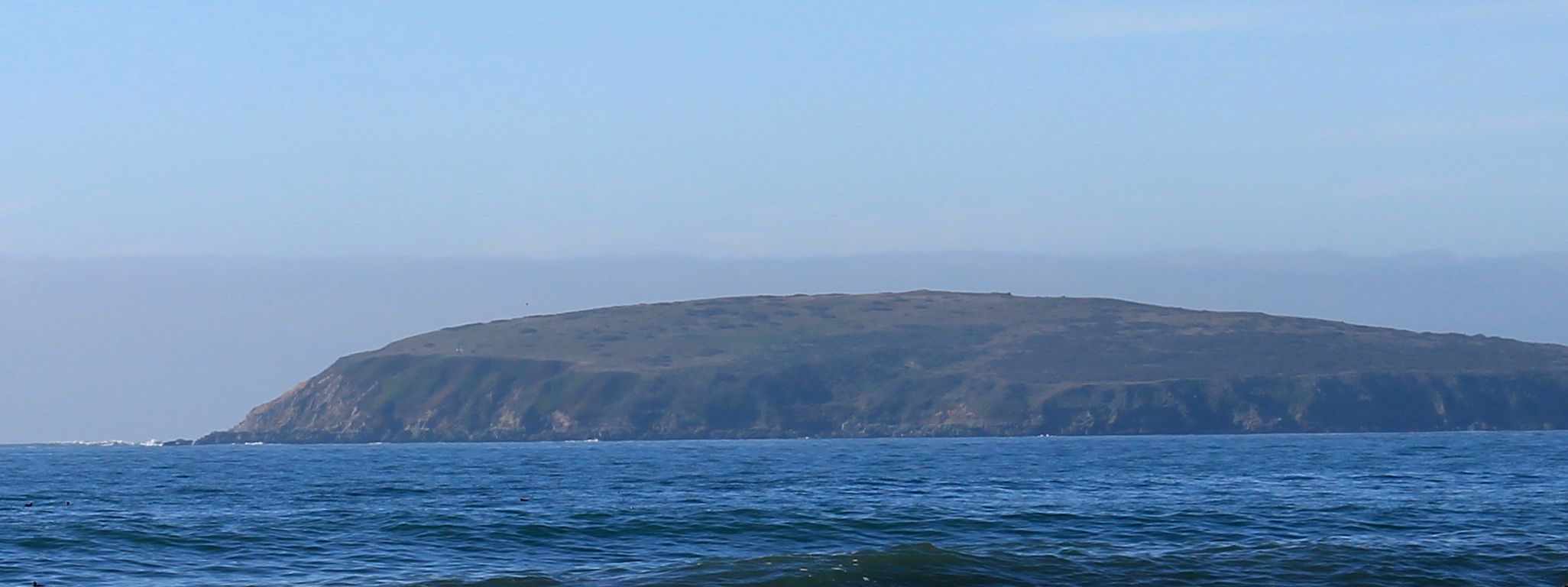 Bodega Head in Sonoma County, California, USA as seen from a beach near Pinnacle Rock